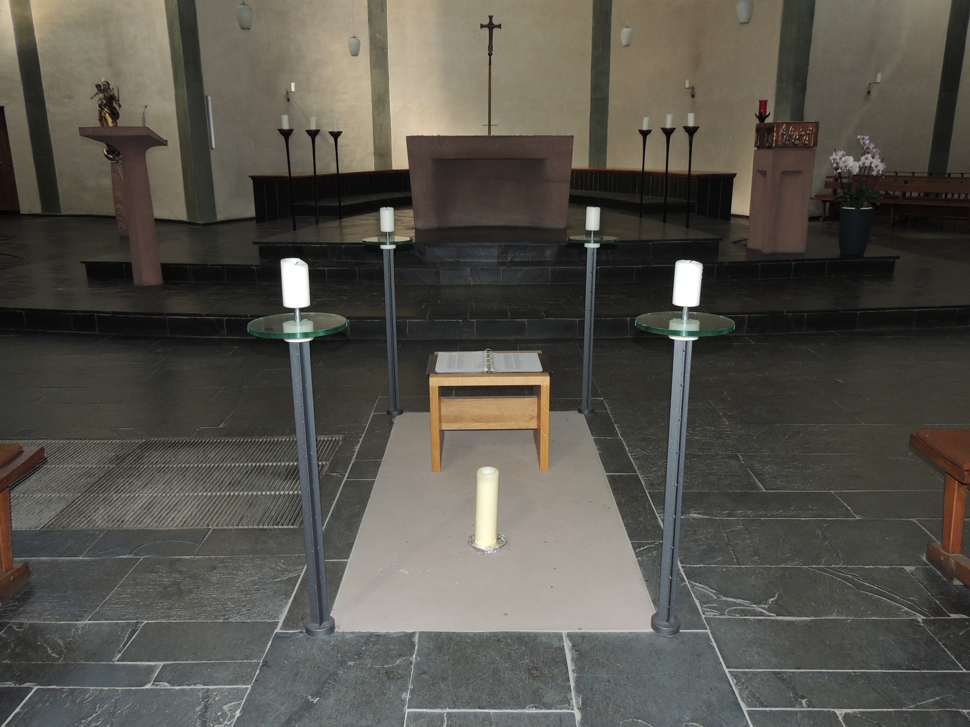 Place of commemoration of the dead in the chancel of church St. Michael in Frankfurt am Main-Nordend